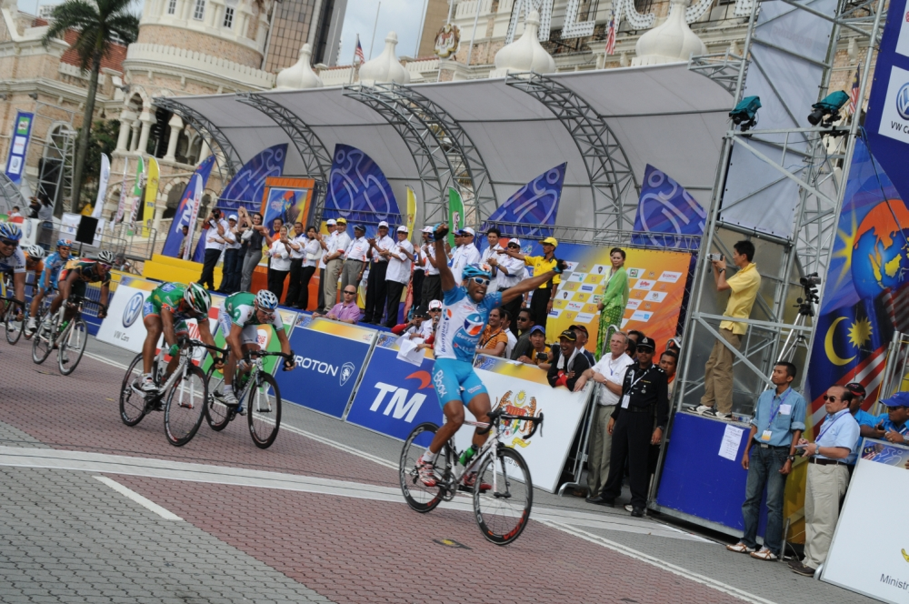 Le Tour de Langkawi 2009, Kuala Lumpur